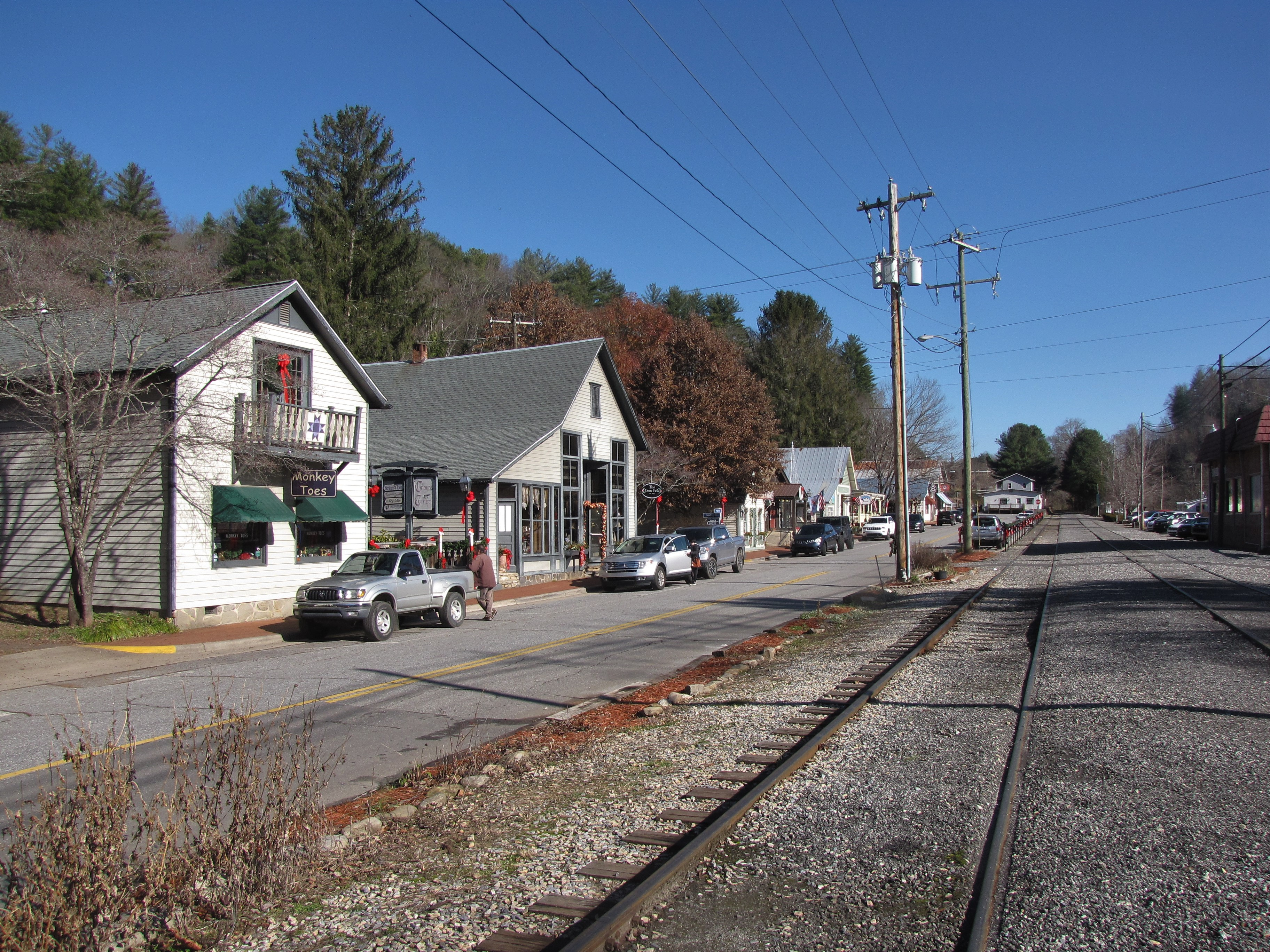 Front Street in Dillsboro, North Carolina.